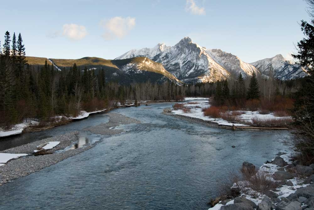 The Kananaskis River looking north toward Mt. Lorette from the Highway 40 turnoff to Kananaskis Village. Photo by Chuck Szmurlo taken March 22, 2007 with a Nikon D200 and a Nikon 12-24 f4 lens.